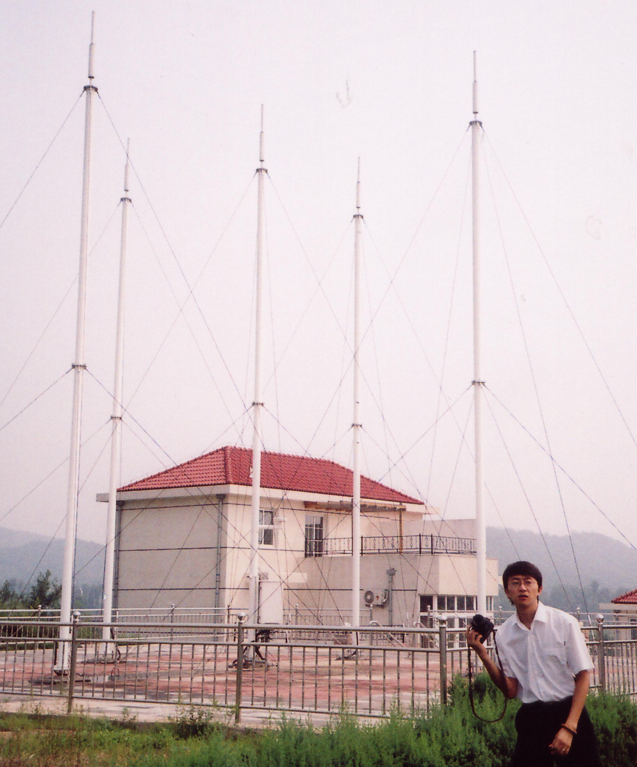 Lightning detector antennas at the Huairou District weather office. These antennas are part of a network to detect in 3D the lightning position.